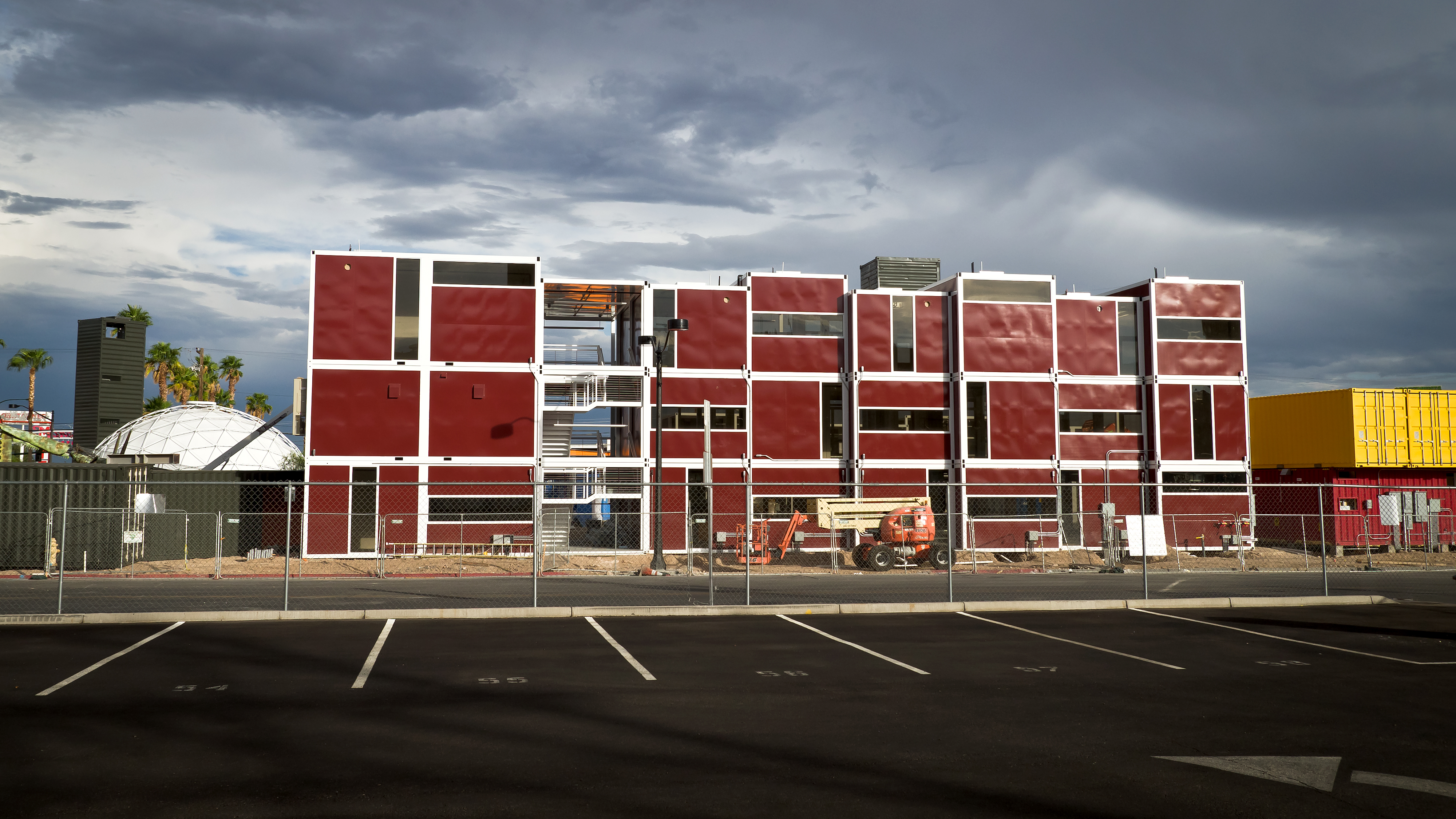 Downtown Container Park in Las Vegas during construction.